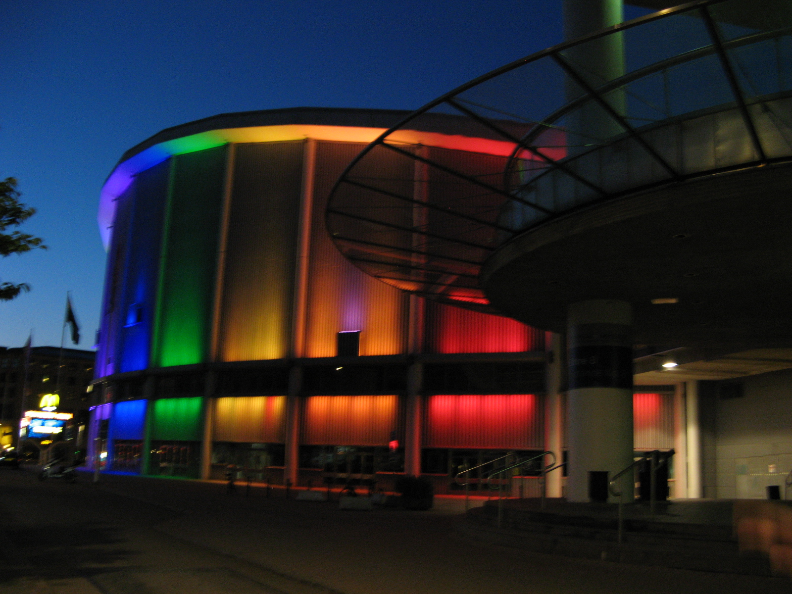 West Pride Gothenburg 2014